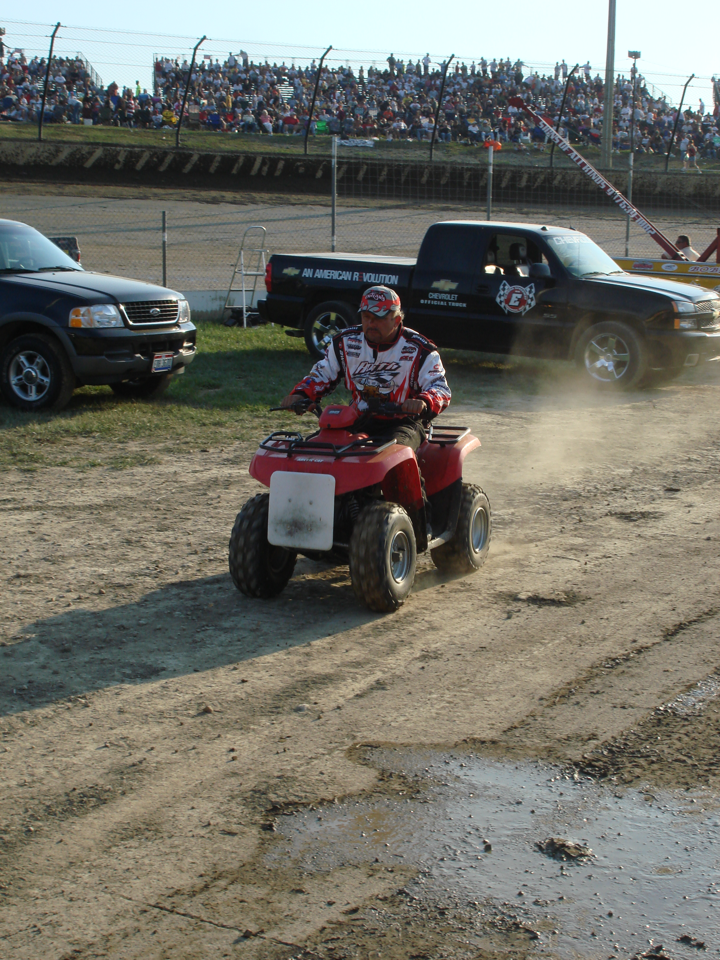 World of Outlaws driver Danny Lasoski at the 2007 Kings Royal sprint car race.Danny Lasoski